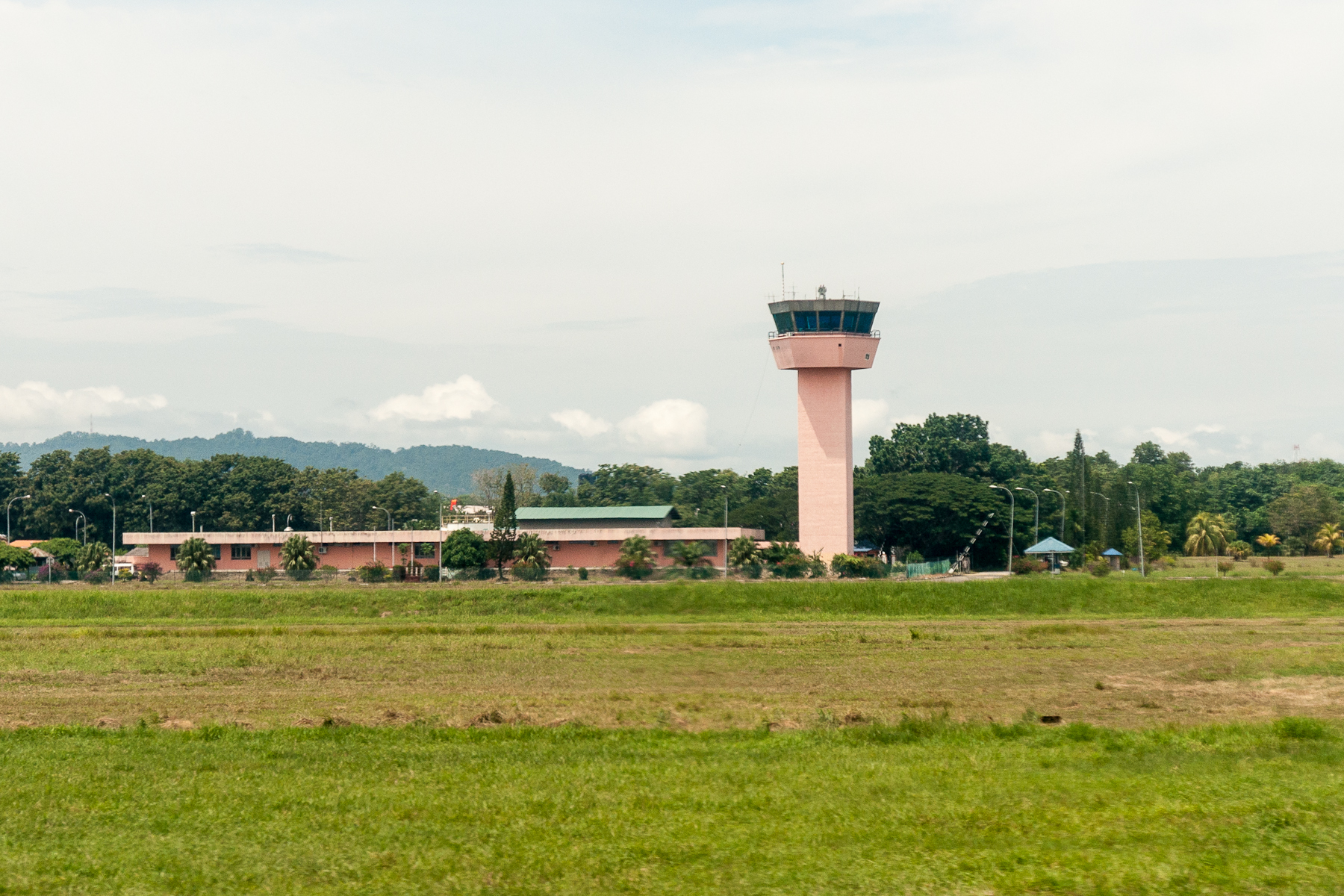 Airport Sandakan, Sabah